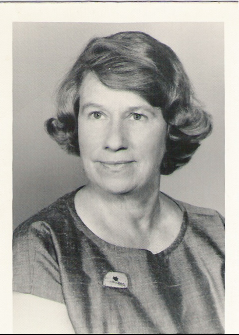 Dorothy Dunn Kramer 1960s